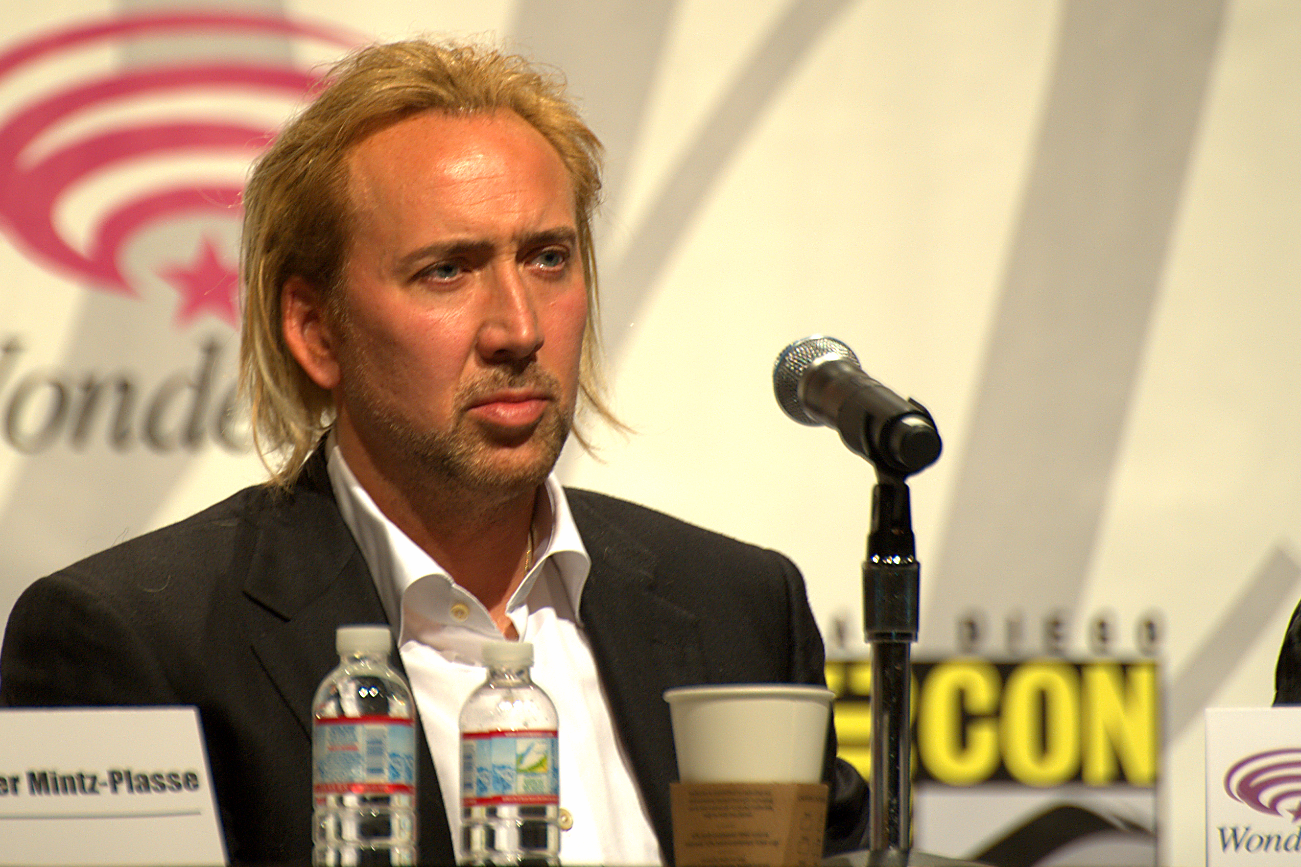 Nicolas Cage at a panel for Kick-Ass a WonderCon 2010